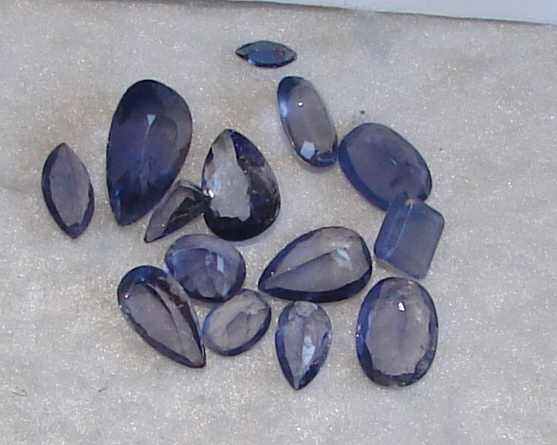 Cordierite ( also called iolite ) cut from Brazil. Gem cutting by Afonso Marques